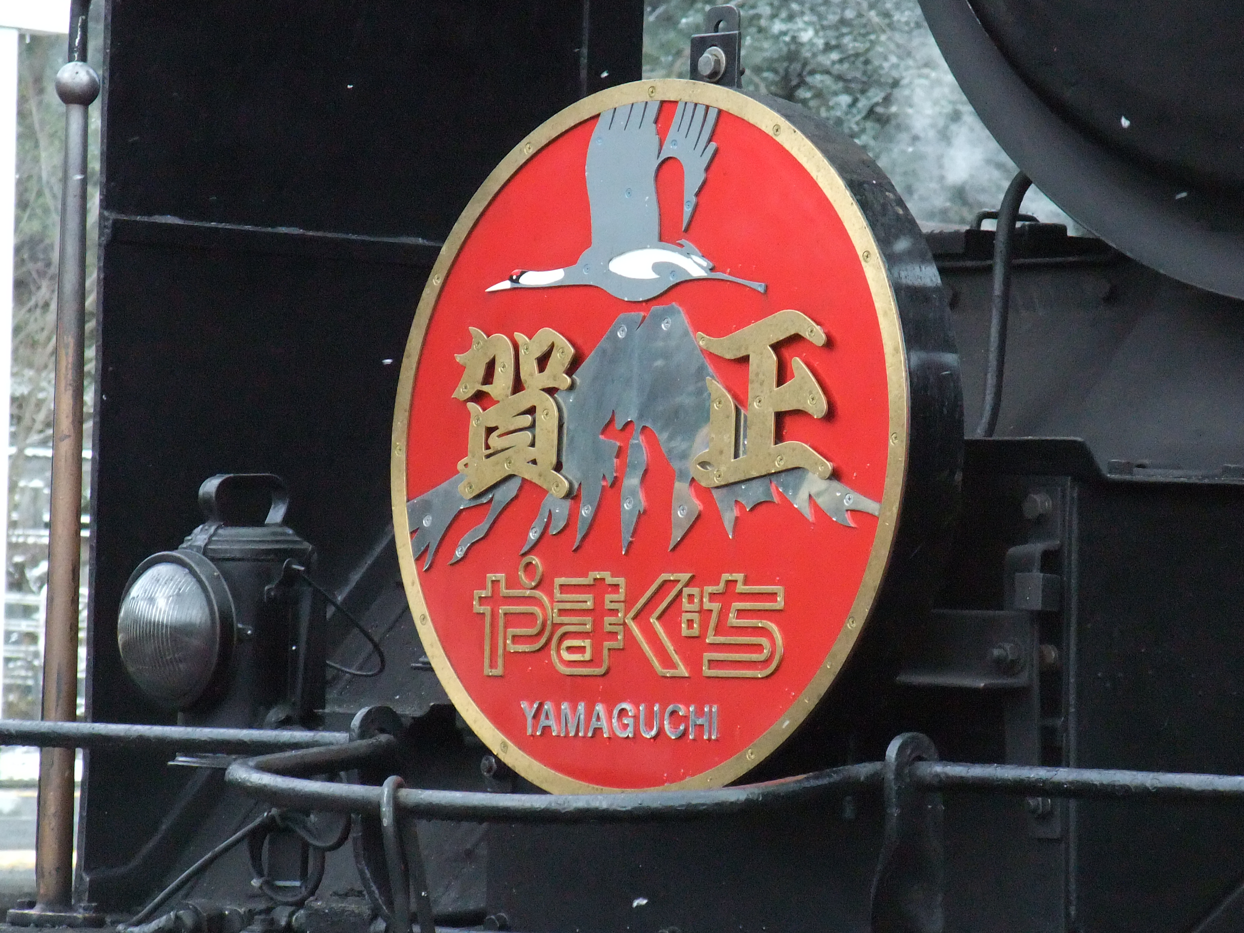 SL YAMAGUCHI The New Year version.